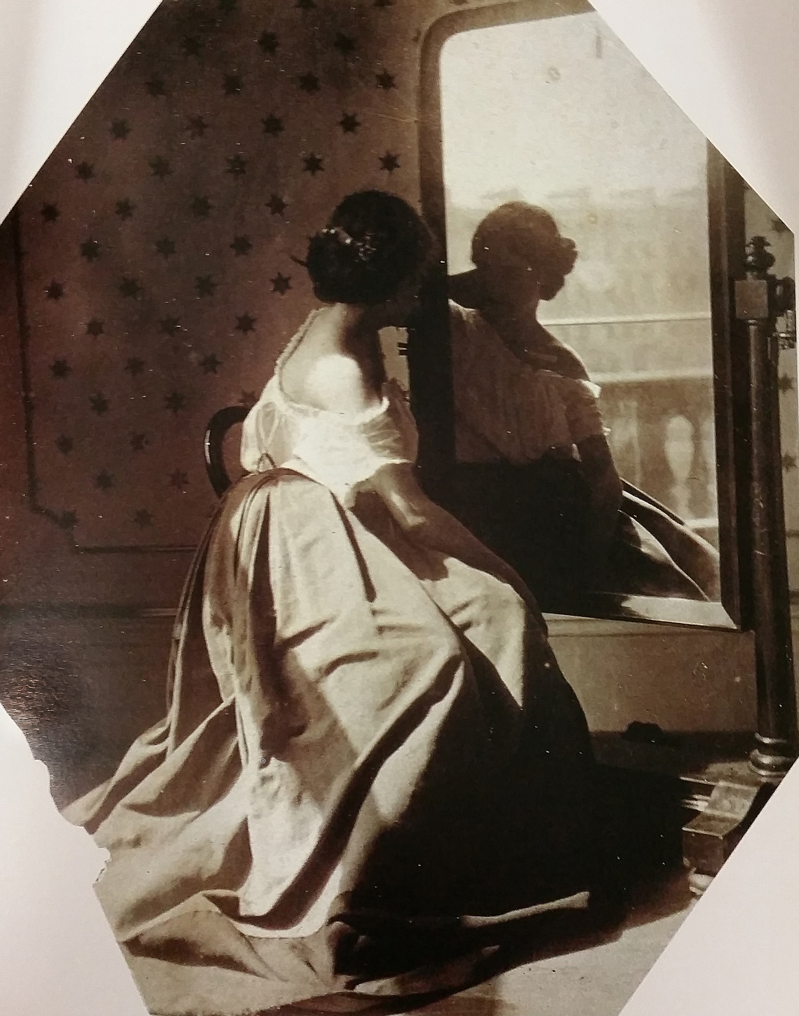 Template:Dt